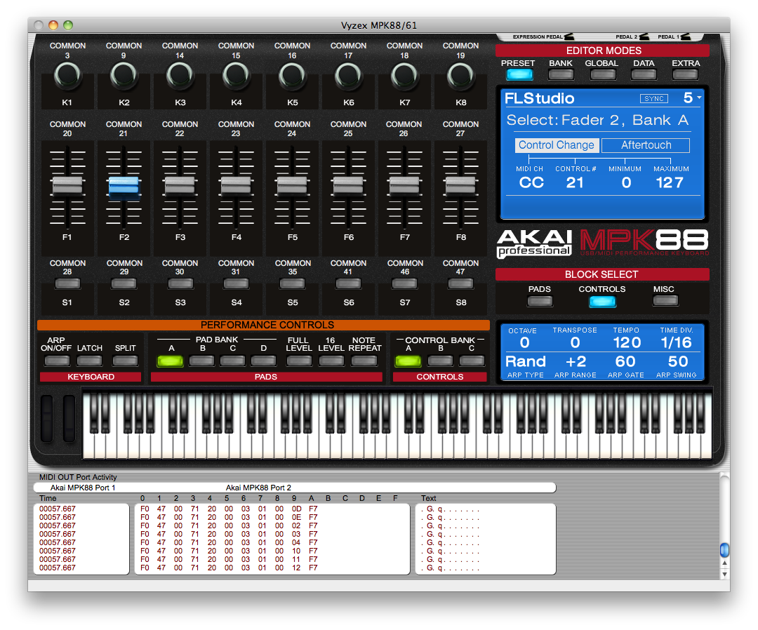 Vyzex Preset Editor software for editing and managing parameter presets for Akai's MPK series MIDI controller keyboards. The software was developed by Psicraft.